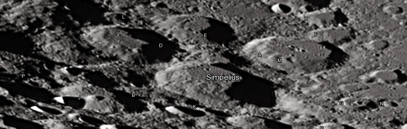 Simpelius lunar crater as seen from Earth with satellite craters labeled